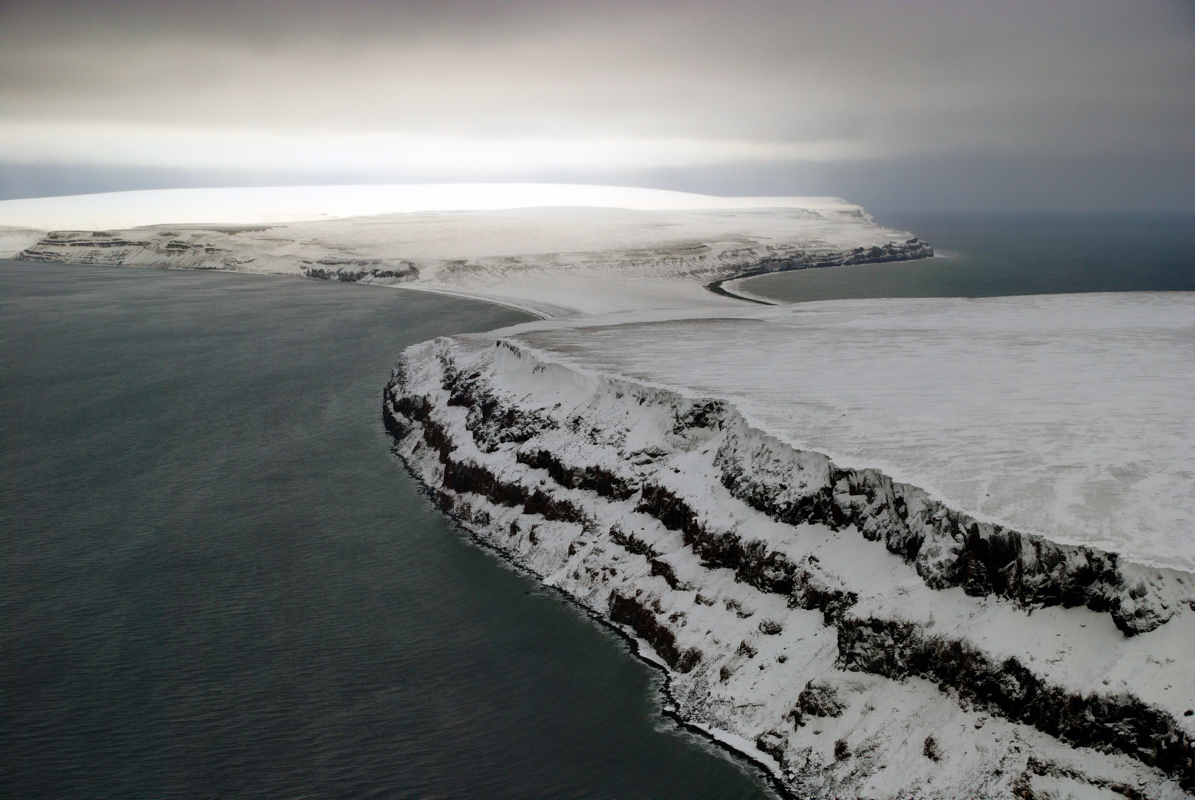 Bennett Island, part of the Lena Delta resource reserve This image is related to the protected area of Russia number 1410054